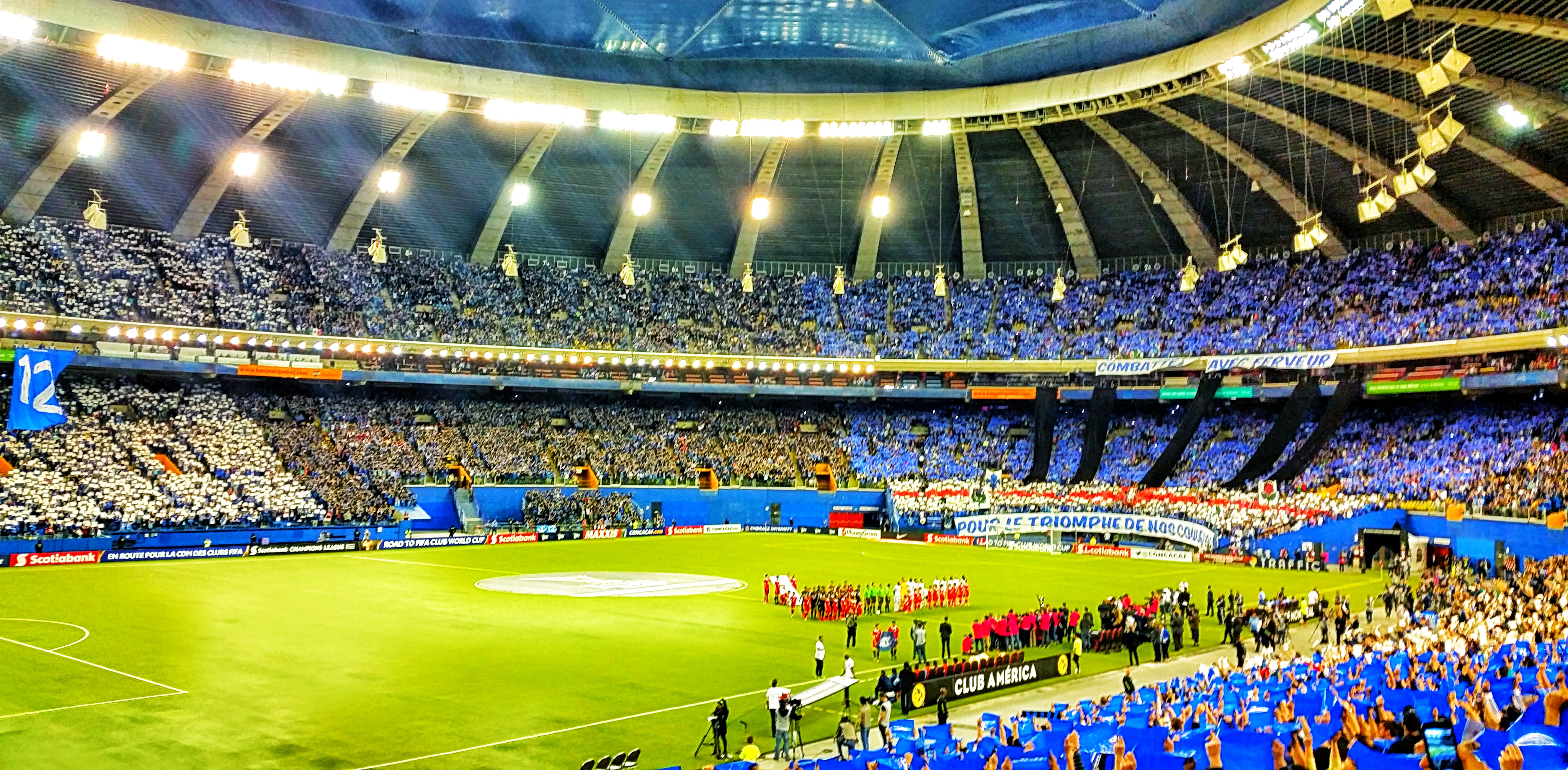 Montreal Impact play CONCACAF Champions League final in front of 61,000 fans, largest crowd for a Canadian soccer game.